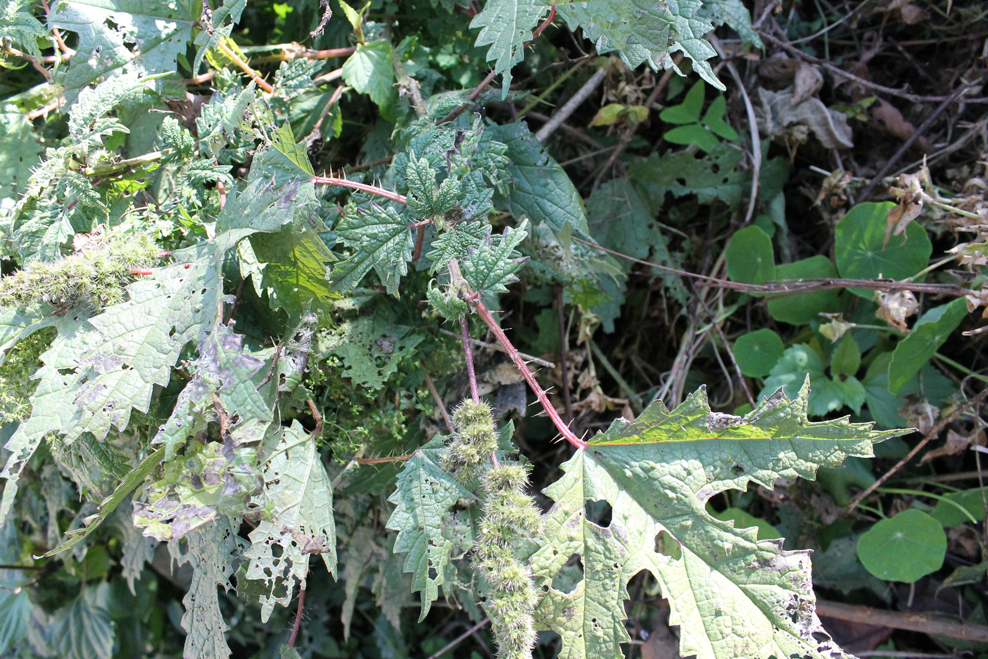 Girardinia diversifolia plant found in Dolakha District, Nepal.